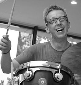 Morten Lund